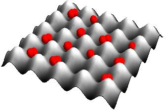 Optical lattice with distribution of superfluid atoms